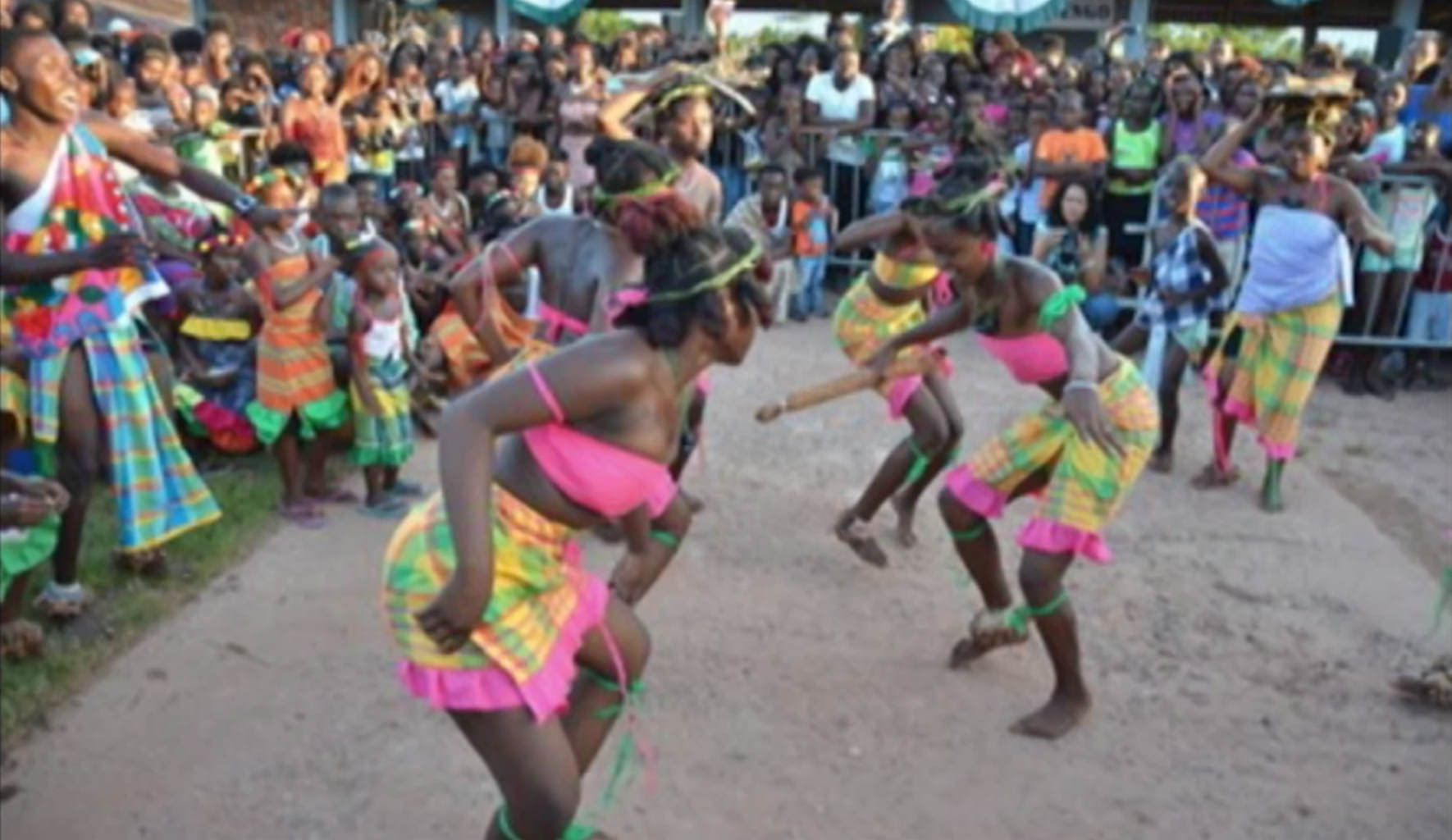 Moengo Festival of Theatre & Dance